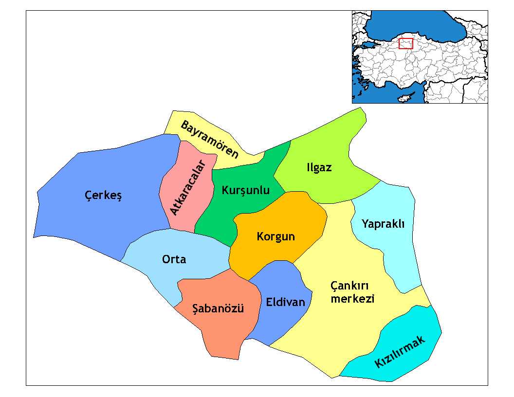 Map of the districts of Çankırı province in Turkey. Created by Rarelibra 19:28, 1 December 2006 (UTC) for public domain use, using MapInfo Professional v8.5 and various mapping resources. Edited by One Homo Sapiens Corrected text where İ,Ş,ı,ğ,or ş occurs in name. Source: [statoids-com]. Increased font size and enhanced color differences among adjacent districts.